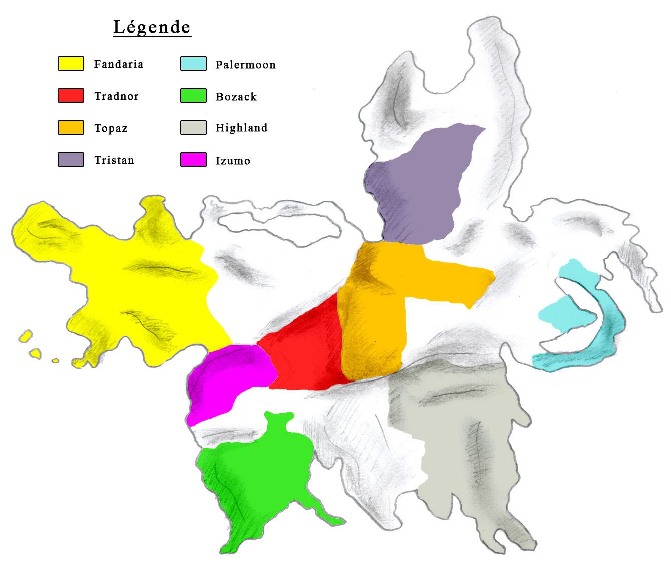 Approximative representation World of video game Dragon Force and its territories